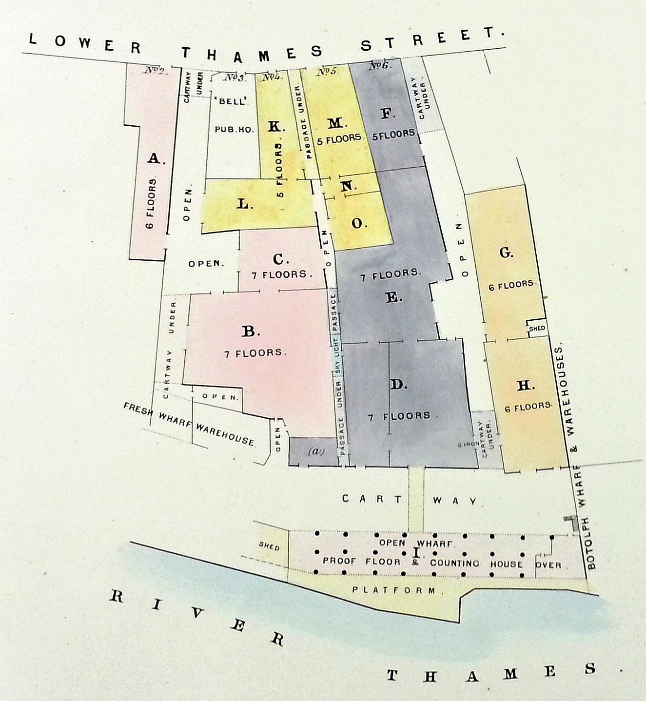 Plan of Cox & Hammond's Quay, London in 1857